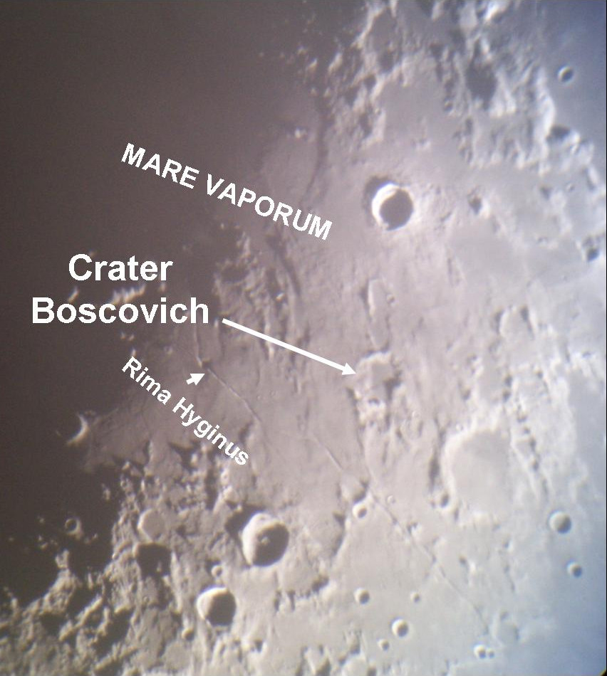 Crater Boschovich as photographed by Eric S. Kounce of the West Texas Astronomers ( using the 36-inch Telescope at McDonald Observatory.